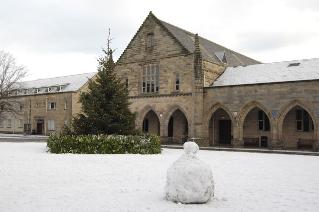 Winter wonderland A snowman constructed from the snows of December 2009 and the University of Aberdeen Christmas tree. In the background, Elphinstone Hall.